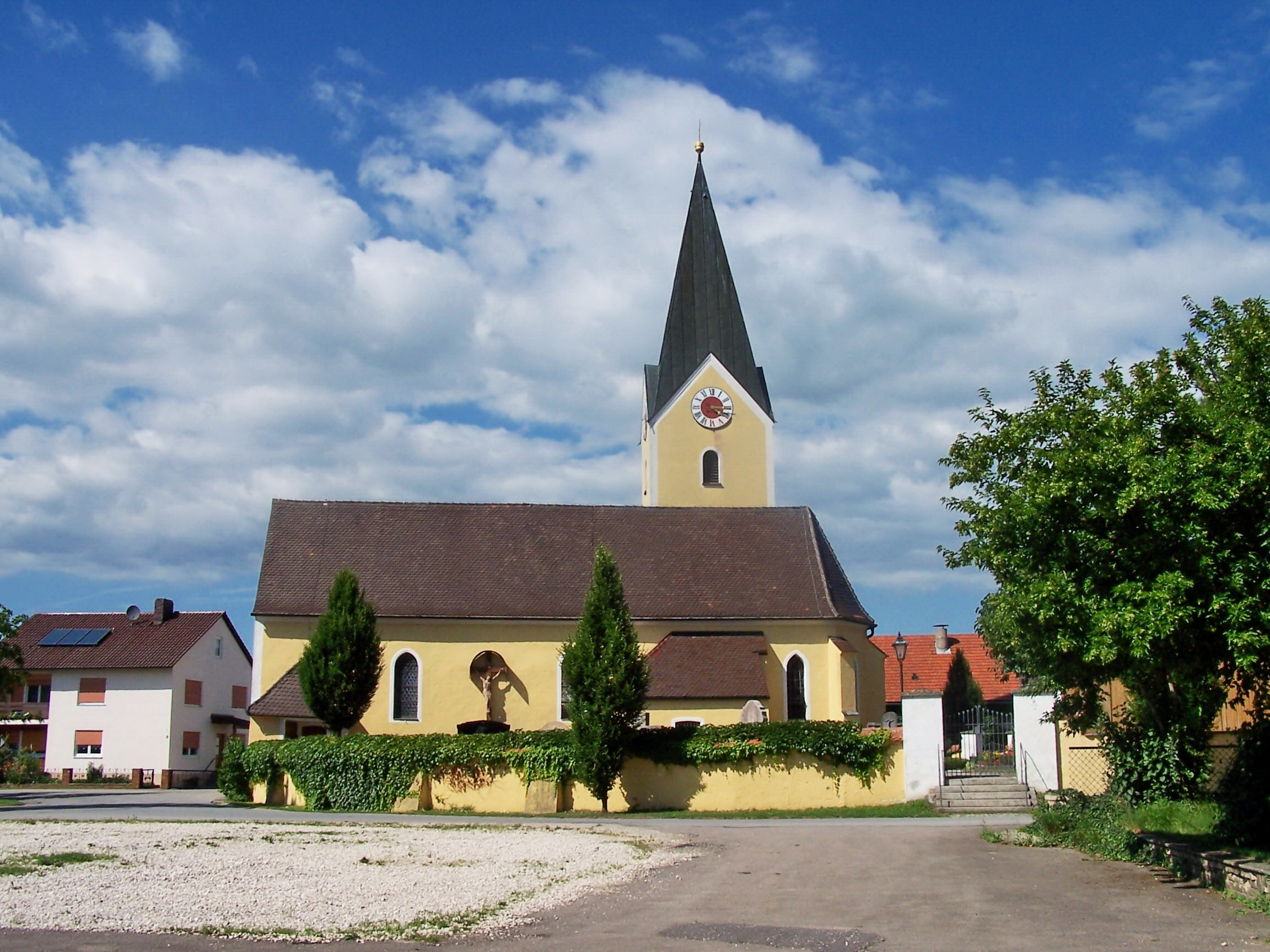 Mötzing, Dengling. Kirche St.-Markus-Straße 16. Kath. Filialkirche St. Markus, Saalbau mit abgewalmtem Satteldach und Flankenturm mit Spitzdach, Langhaus romanisch, im 18. Jh. verlängert, Chor spätgotisch, 15. Jh.; Friedhofsmauer, teilweise mit Stützpfeiler, in der Anlage wohl mittelalterlich.